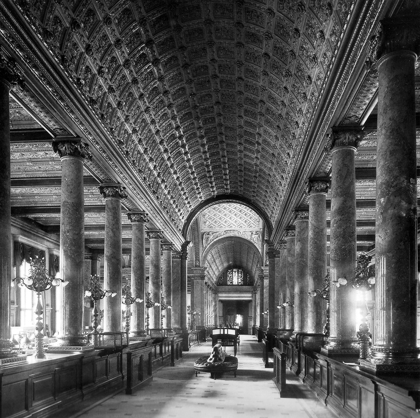 Reichsbank extension in Hausvogteiplatz. Erected 1892-94, destroyed in World War II. The banking hall.